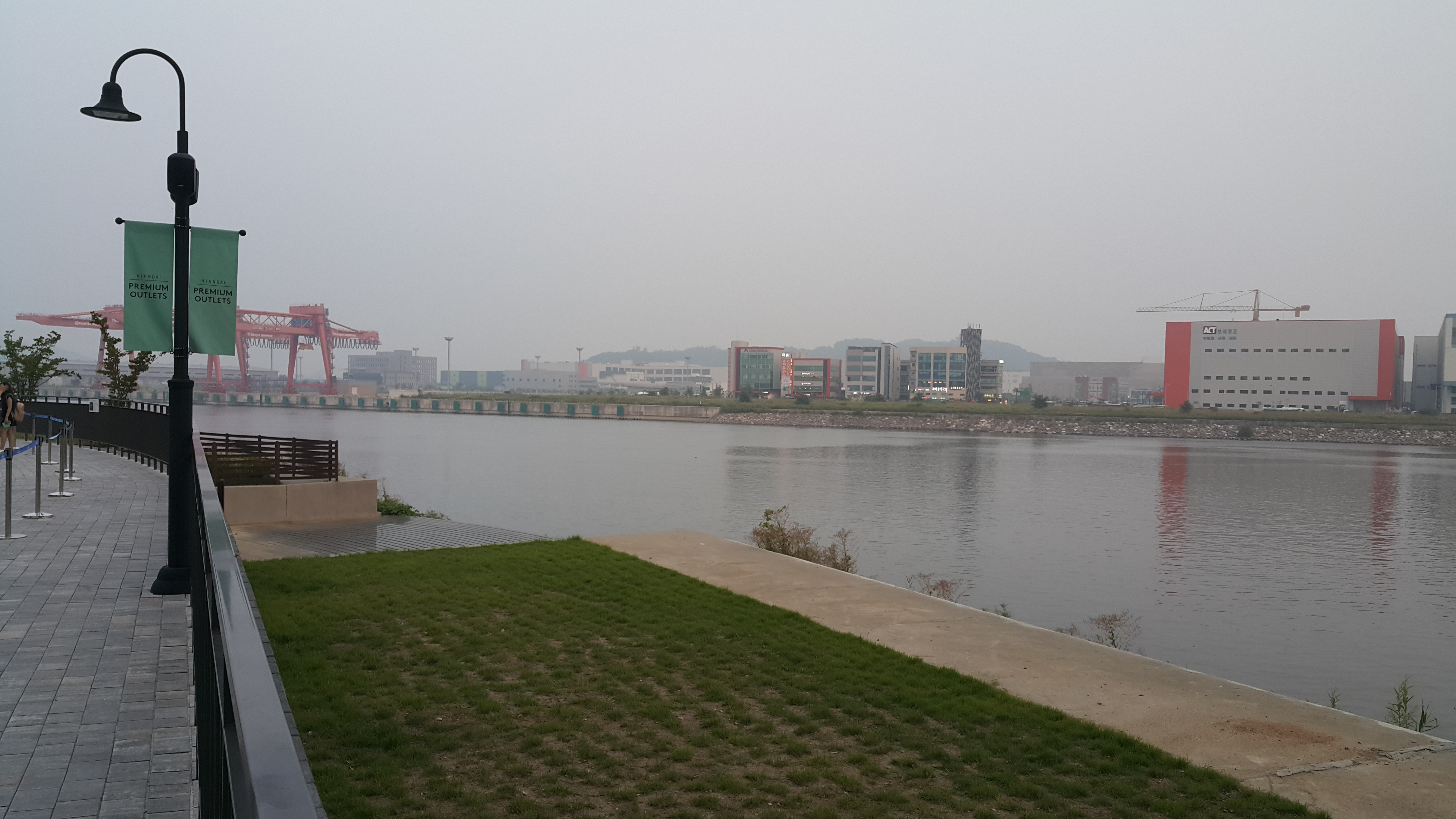 That picture is nearby Marina port